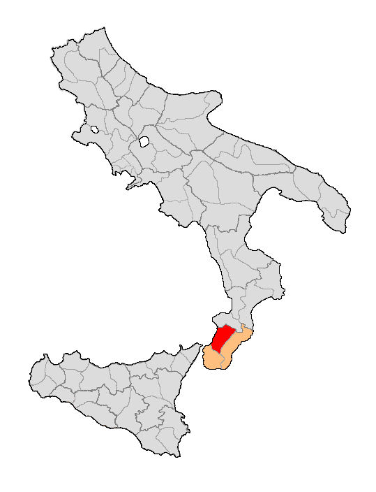 Locator map of Distretto di Palmi